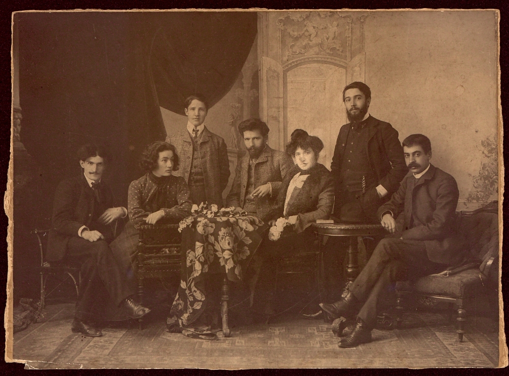 Hristo Silyanov, Sofia Malinovska-Silyanova, Todor Dobrinovich, Anton Strashimirov, Stafka Strashimirova, Mihail Gerdzhikov, Peyo Yavorov, 1904